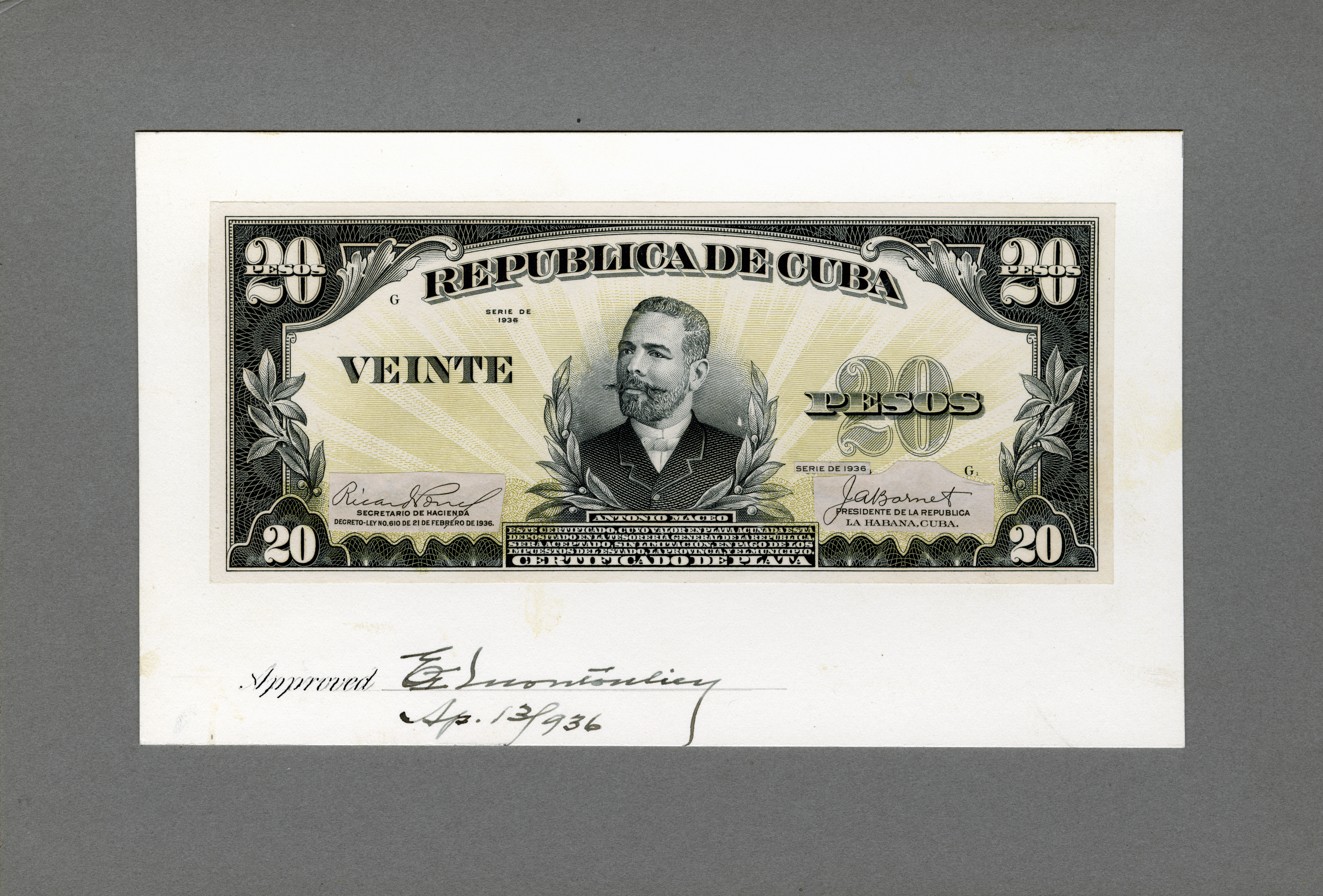 Progress proof (essay) for 20 silver pesos (1936) prepared by the Bureau of Engraving and Printing (BEP) for the República de Cuba depicting Antonio Maceo Grajales. Engraved signatures of Ricardo Ponce (Secretario de Hacienda) and José Agripino Barnet (Presidente de la República).The United States BEP prepared and issued Cuban silver certificates (Certificados de Plata) in seven series (1934, 1936, 1936A, 1938, 1943, 1945, and 1948), each series marking a change the authorizing signatures of either the Cuban Secretary of the Treasury (Secretario de Hacienda) or the President (Presidente de la República).